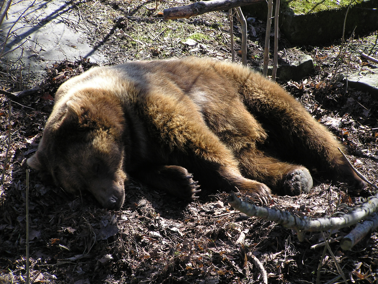 A European Brown Bear lying in the morning sun in the Bärengraben in Berne, Switzerland. I shot this photo on March 16, 2005 with an Olympus C750 UZ digital camera.